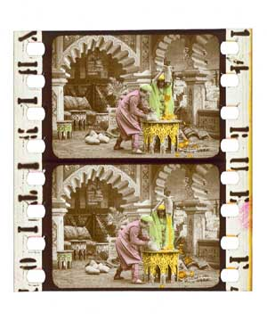 Fragment of the stencil colored film